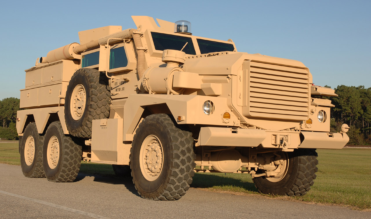 Force Protection Cougar 6x6